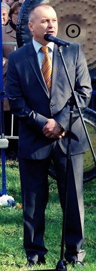 Franc Kangler with Dalai Lama in Maribor 2010